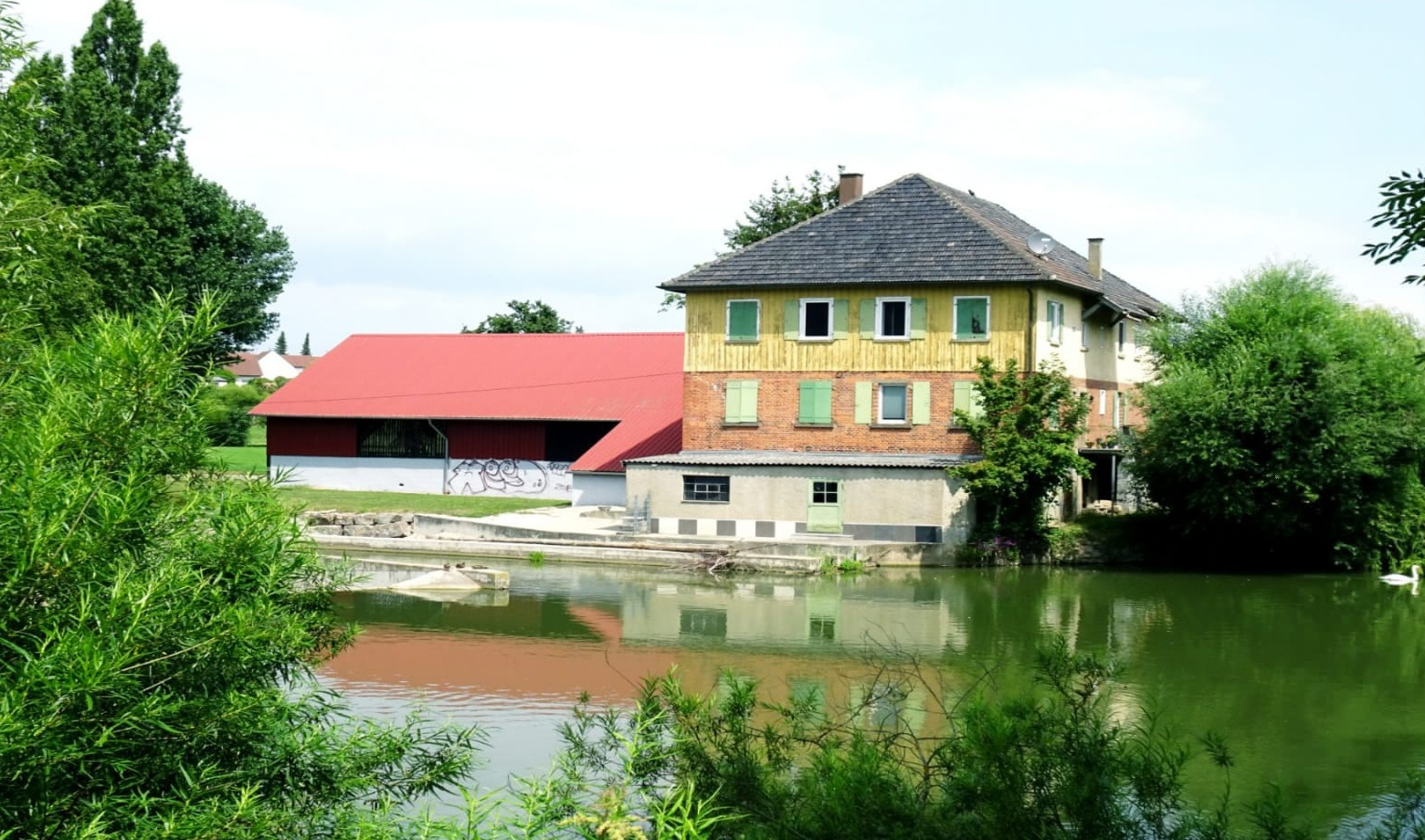 Look from the cyclepath to the old mill oedheim